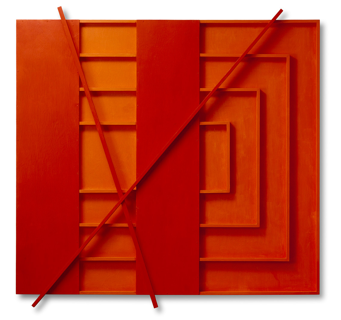 John Olsson, Orange object, 150 * 150 cm, 2002. Sculpture